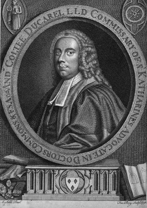 Portrait of Andrew Ducarel (1713-1785). Scan from a print from an engraving of a portrait